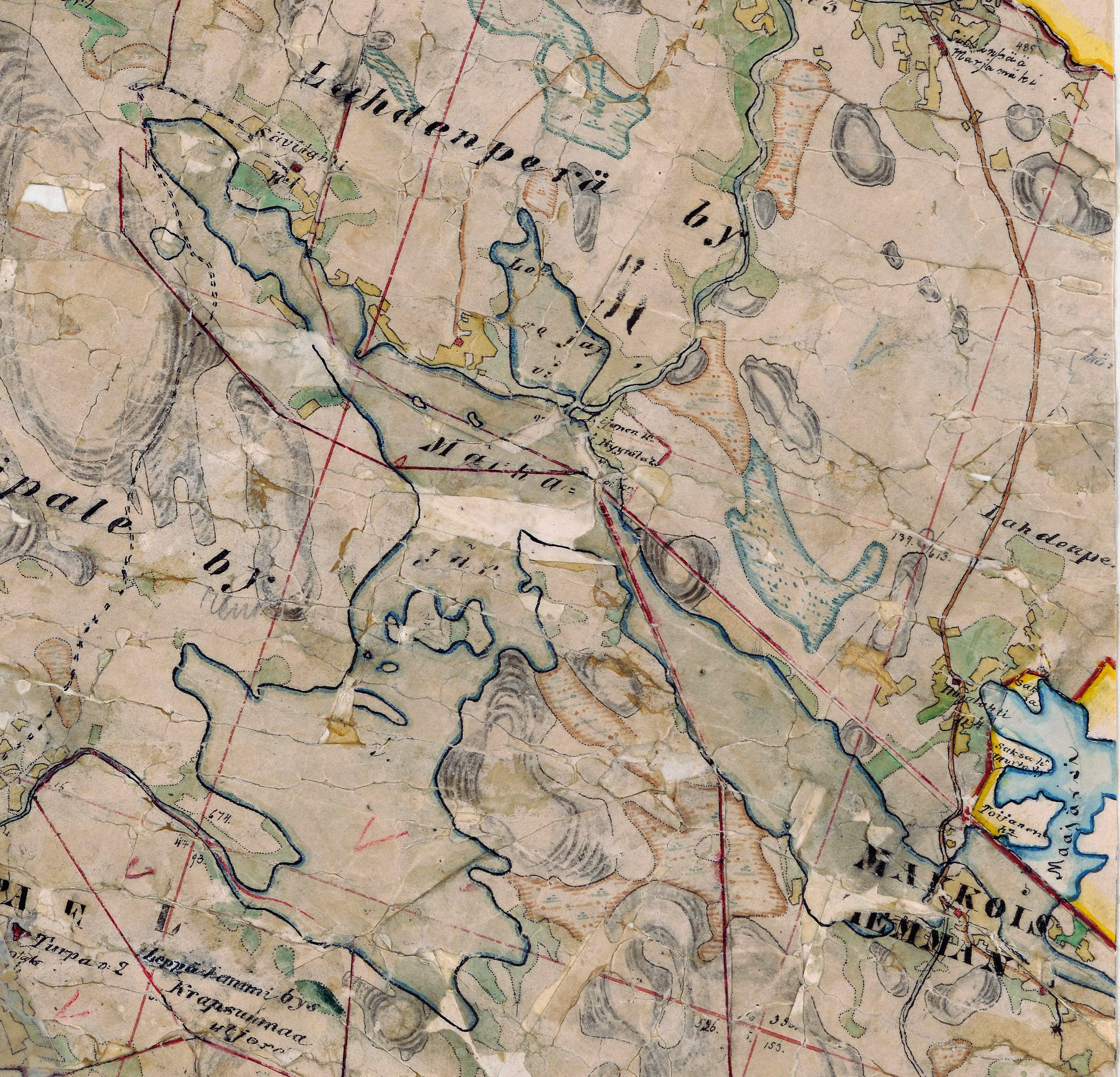 Lake Märkäjärvi in Suodenniemi, Finland, in 1850's rural municipality map (pitäjänkartta)